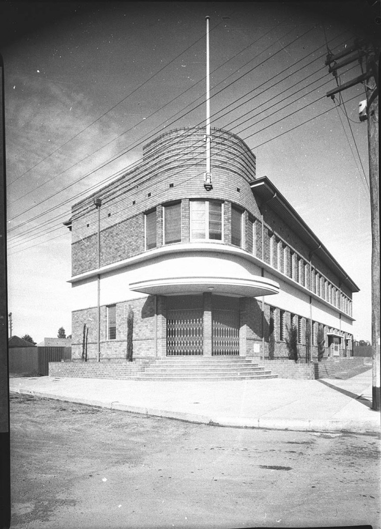 Cabramatta Town Hall (taken for Building Publishing Co)